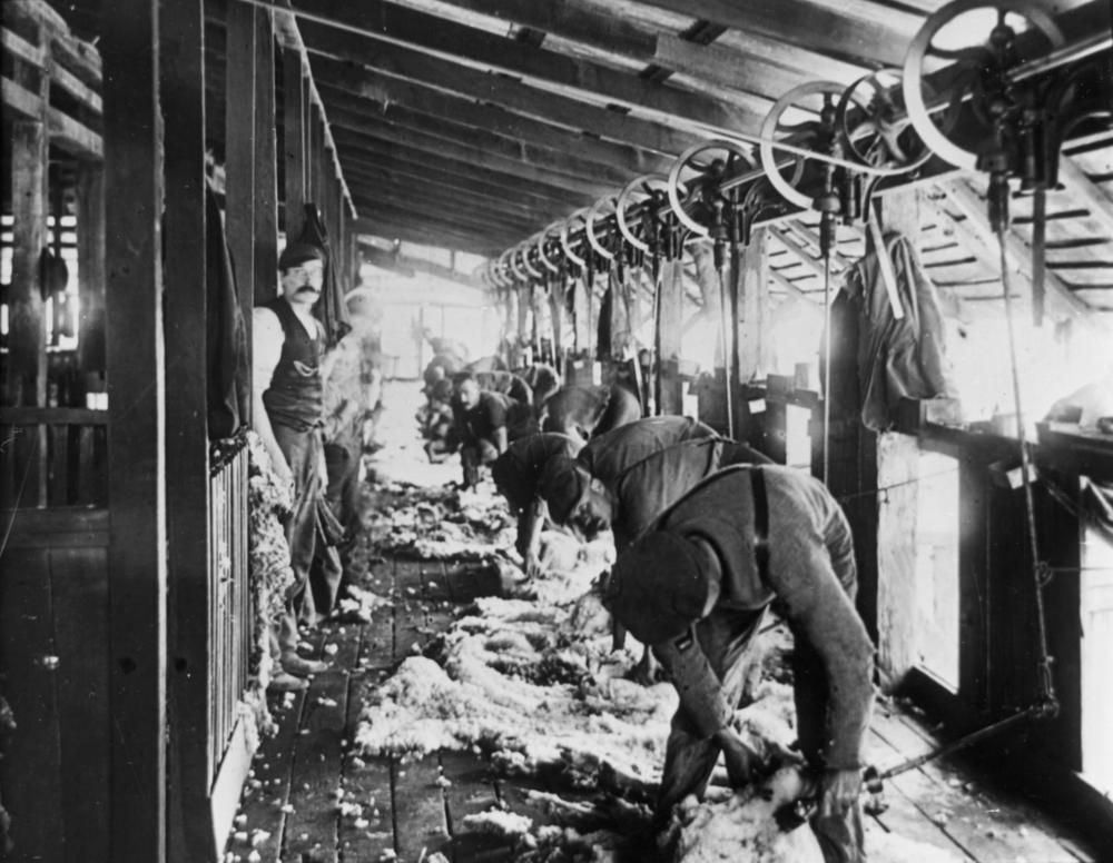 Shearing at the woolshed at Jimbour Station, ca. 1895 Jimbour Station was one of the largest properties taken up in the 1840s.The pastoral run name was first used by Henry Dennis the pastoralist in 1841. Photograph printed from a lantern slide.